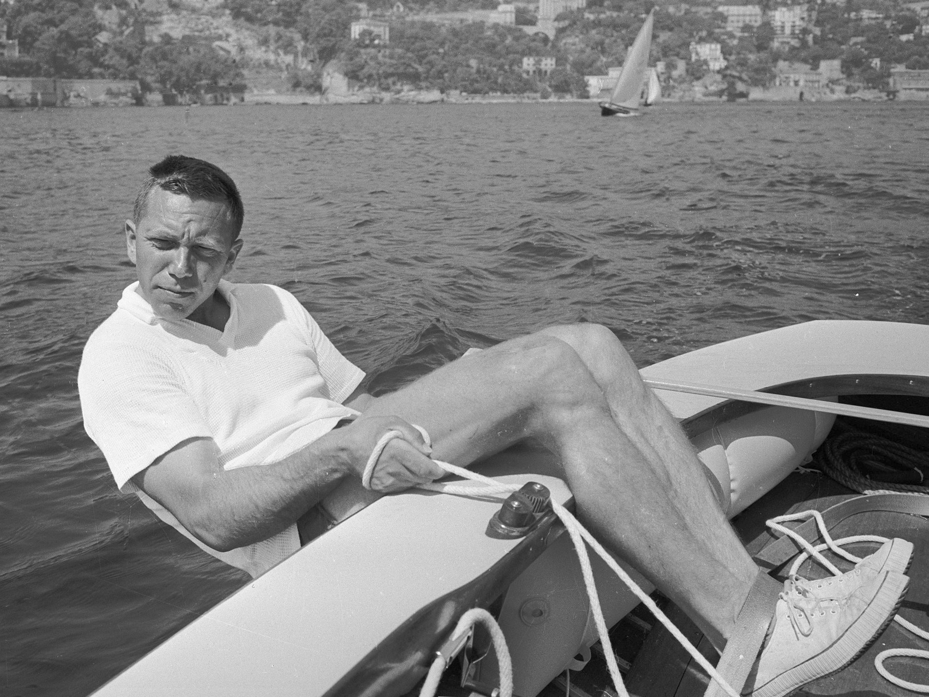 Paul Elvstrøm at the Rome Olympics